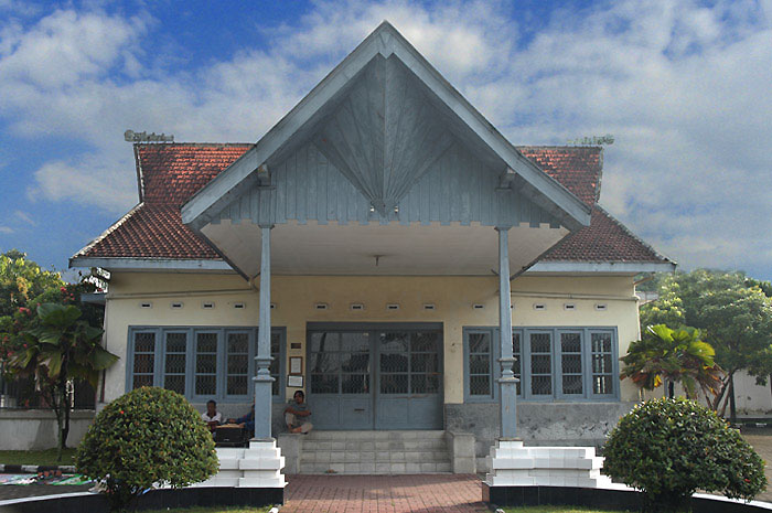 House of Ir. Soekarno, First President of Indonesia located in Blitar, East Java, Indonesia